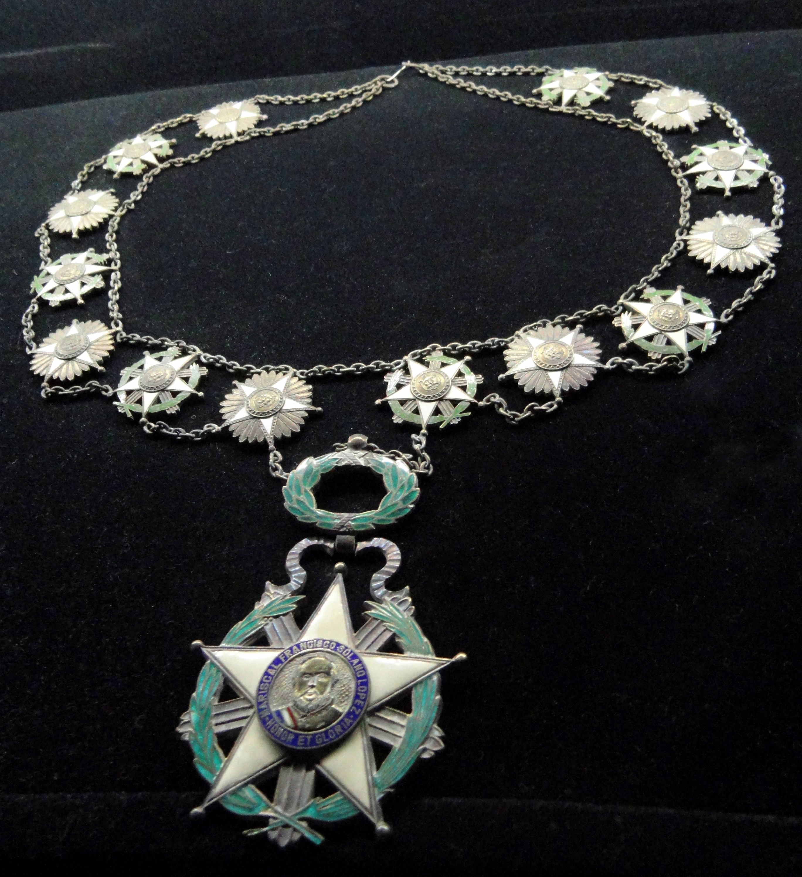 IExhibit in the Memorial JK, Brasília, Brazil.